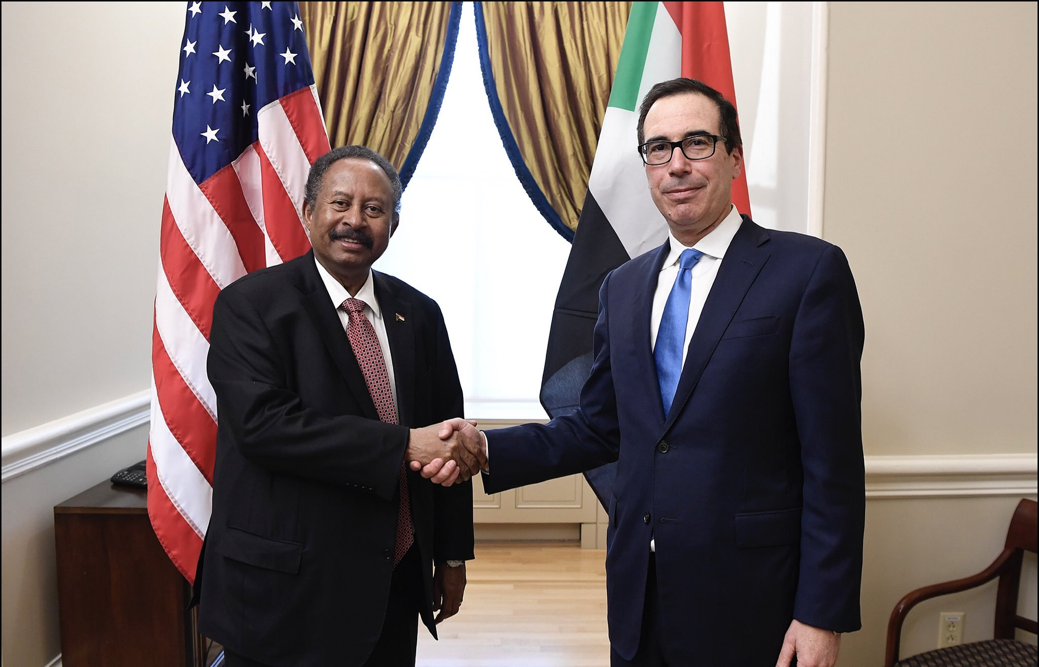 Met with Sudanese Prime Minister Abdalla Hamdok @SudanPMHamdok today. We welcome the new government’s stated commitment to respecting human rights, fighting corruption, and reforming Sudan’s economy.